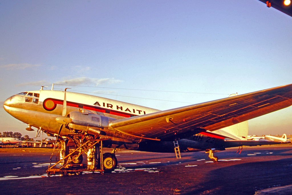 Curtiss C-46A Commando HH-22 of Air Hait at Miami Airport in 1971